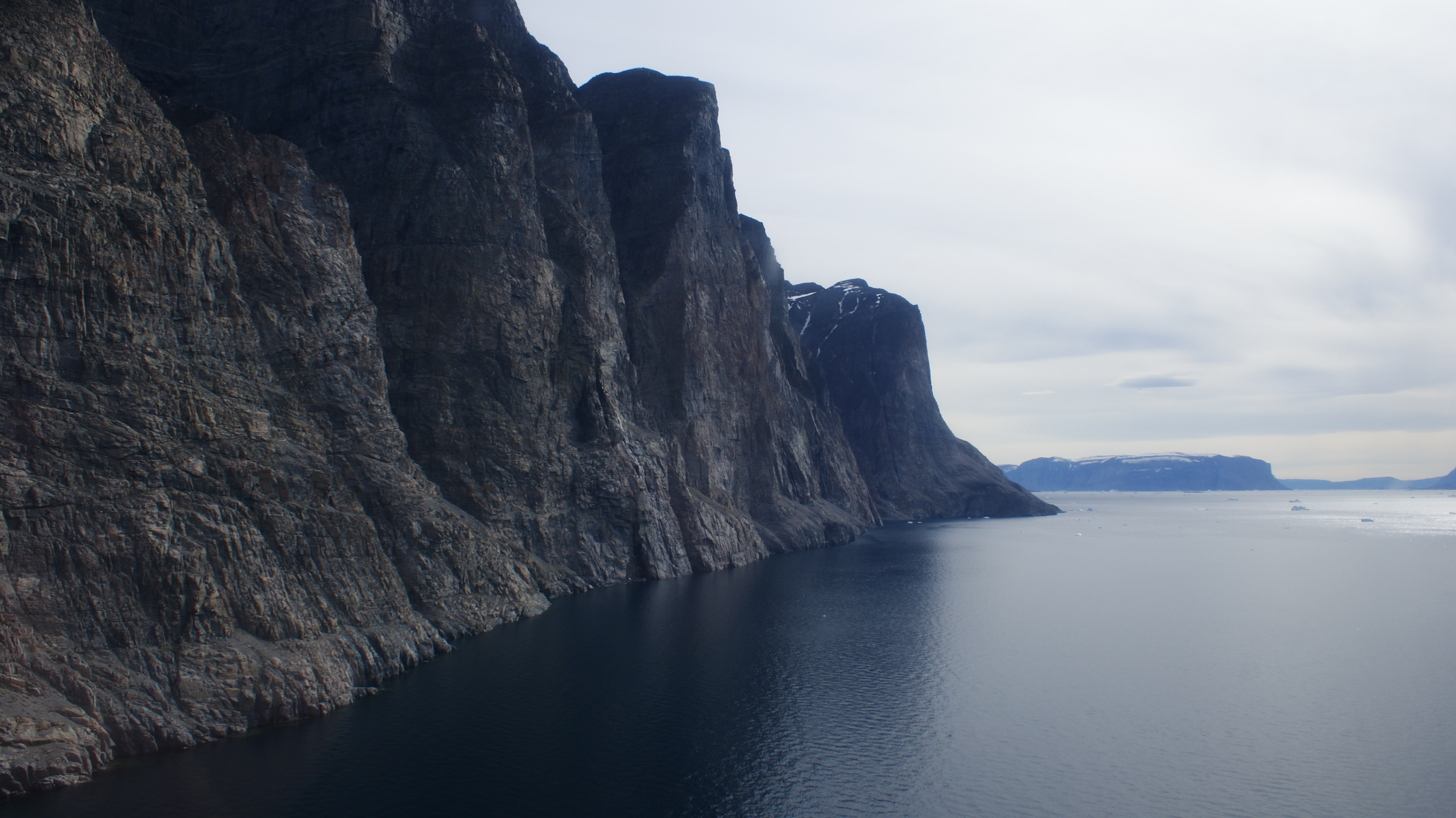 Appat Island, Greenland. Southern wall in profile photographed from the Air Greenland Bell 212 helicopter during Uummannaq-Ukkusissat flight.